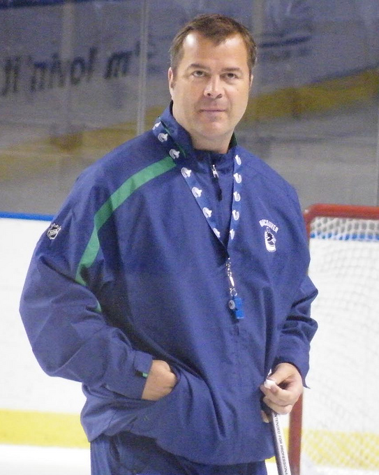 Alain Vigneault, head coach of the Vancouver Canucks of the National Hockey League, in April, 2009.